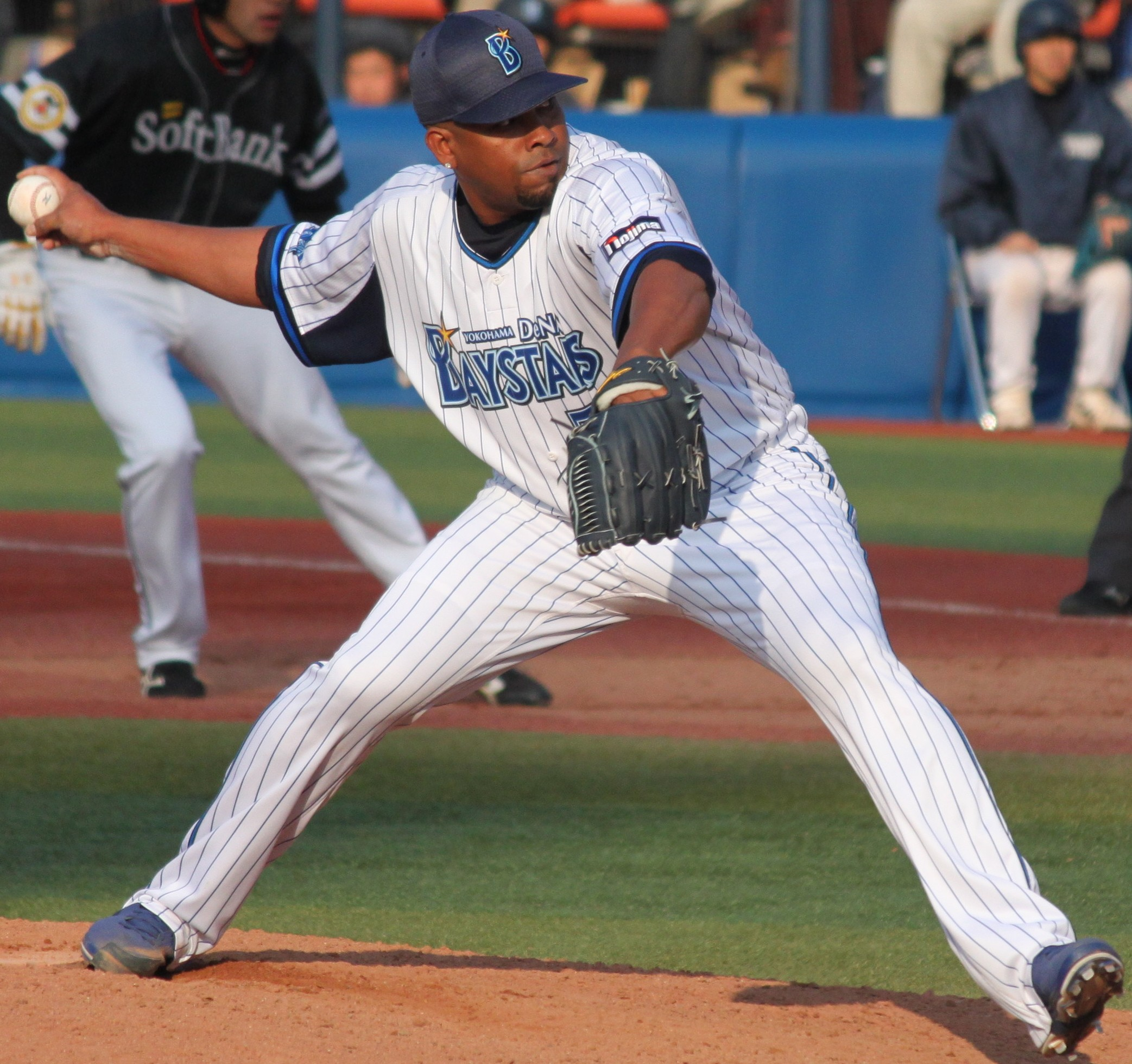 Jorge Sosa, pitcher of the Yokohama DeNA BayStars, at Yokohama Stadium.